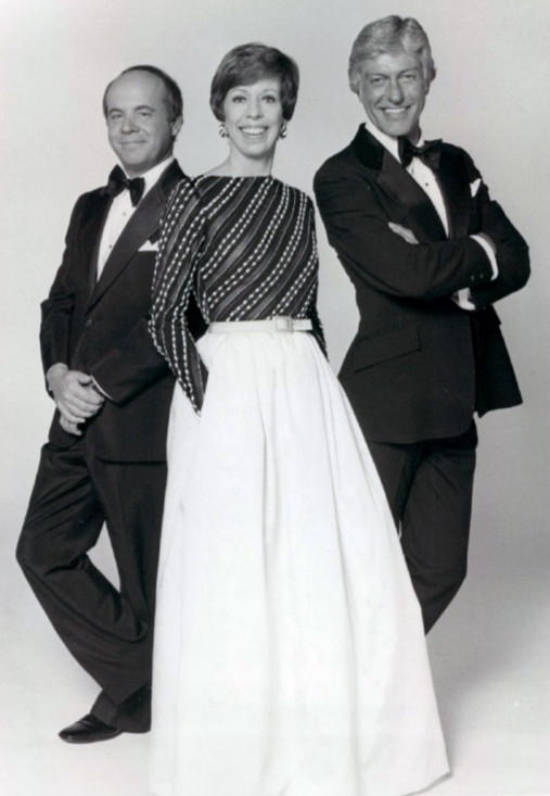 Photo of Tim Conway, Carol Burnett and Dick Van Dyke--the cast members of The Carol Burnett Show as the program began its eleventh and final season.